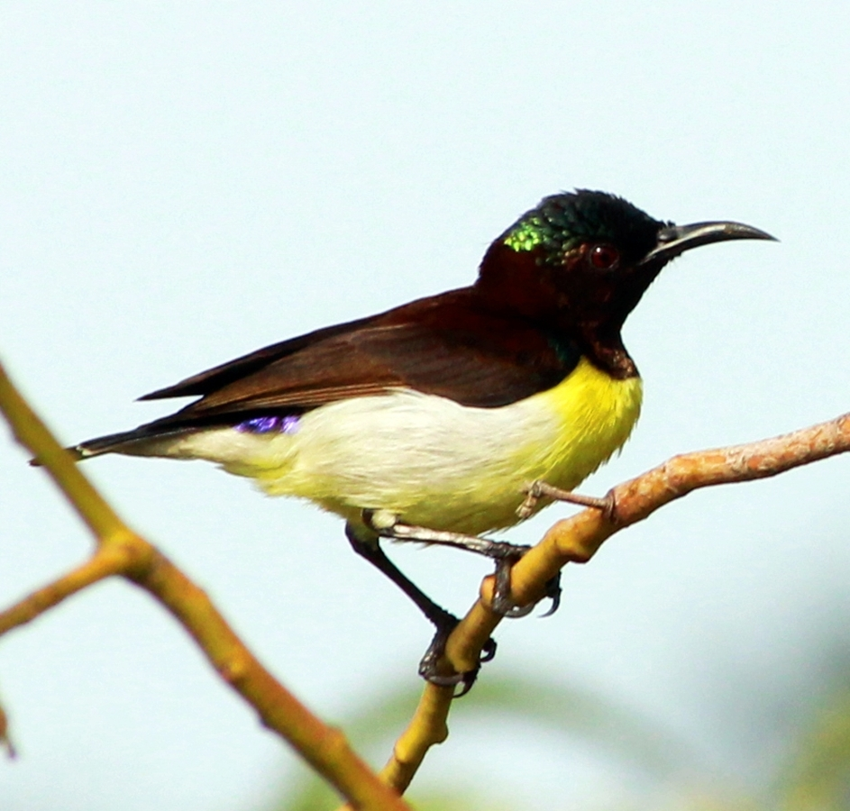 Spotted this Purple rumped Sunbird in a garden tree near my home in Chennai India.